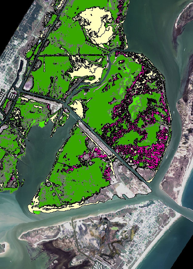 Using Geographic Information System tools, scientists and researchers can zoom into to an image like this to reveal fine details about the location, health, and variety of submerged aquatic vegetation in a given area. This image of Redfish Bay, Texas near Corpus Christi--part of the new Texas Coastal Bend map--shows seagrass (green), oyster reefs (pink), sand bottom (yellow), mangroves (magenta), and salt marsh (light blue). To learn more benthic maps, visit: NOAA Coastal Services Center New Digital Map of Near Corpus Christi , ( Making Waves audio podcast ) Coastal Decision-making Tools (Original source: National Ocean Service Image Gallery )